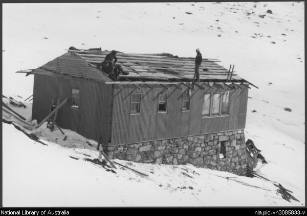 Workers on the Lake Albina ski lodge, finishing off in 1951.